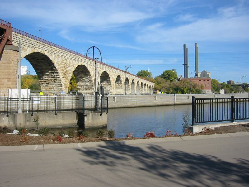 A river-level view of the Stone Arch Bridge in Minneapolis, taken October 16, 2005. The very far left of the picture shows a small portion of the red metal bridgework where two of the stone arches were removed to build the lock and dam. Category:Images of Minneapolis, Minnesota